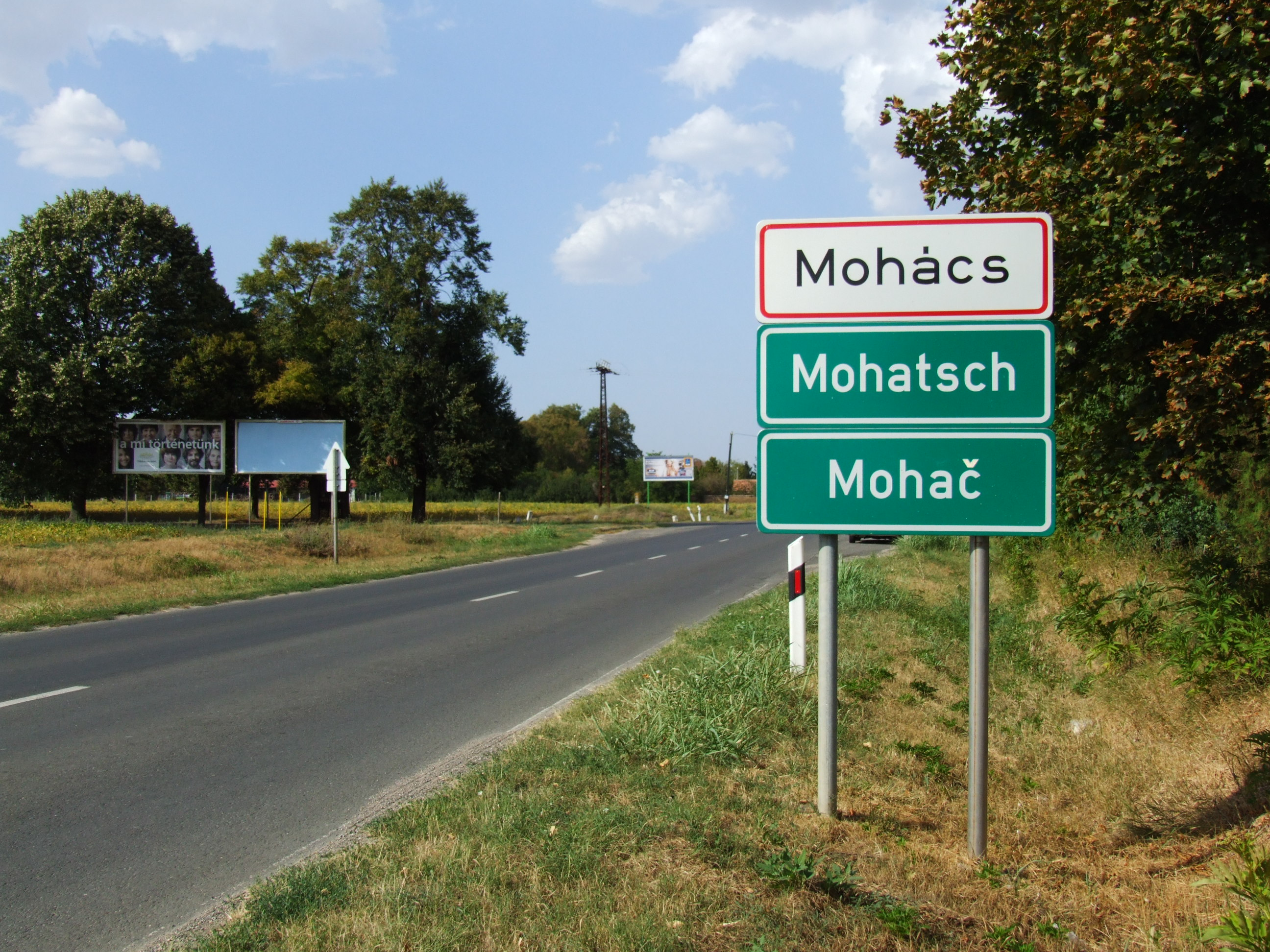 Mohács (Mohatsch, Mohač), Hungary - city limit